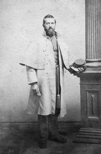 1st Lieutenant Abel E. Leavenworth, Company K, 9th Regiment, Vermont Volunteer Infantry. Photo is a full standing front image of him in frock coat, with holster, sword, and kepi in hand.